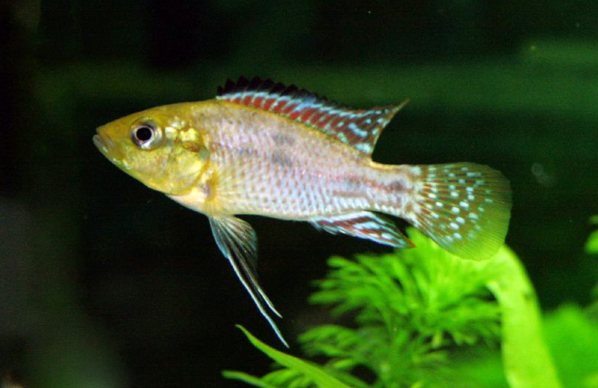 A male Egyptian Mouthbrooder